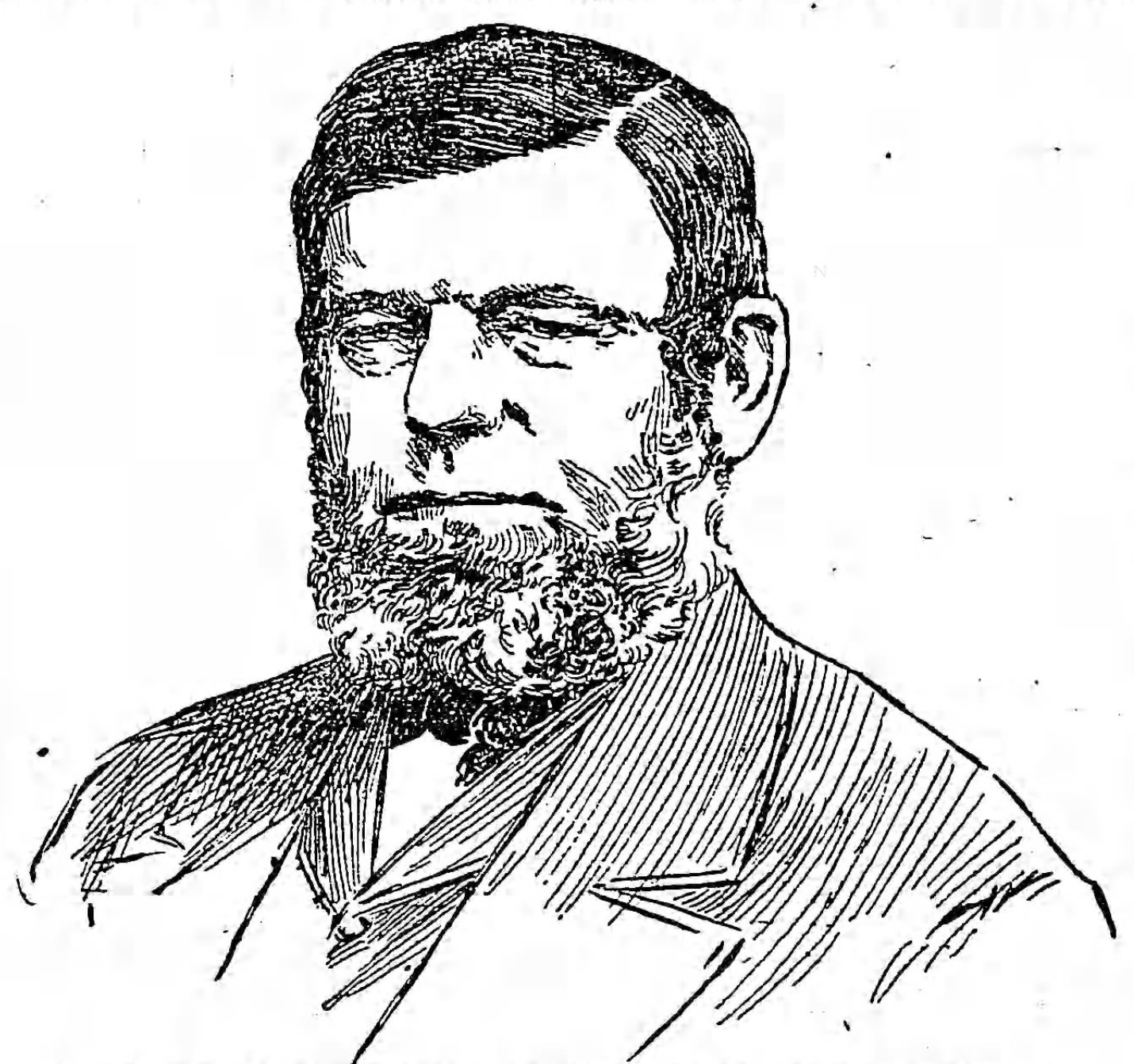 This is a picture of Captain Richard "Dick" Brown who sailed the America, ca. 1895.